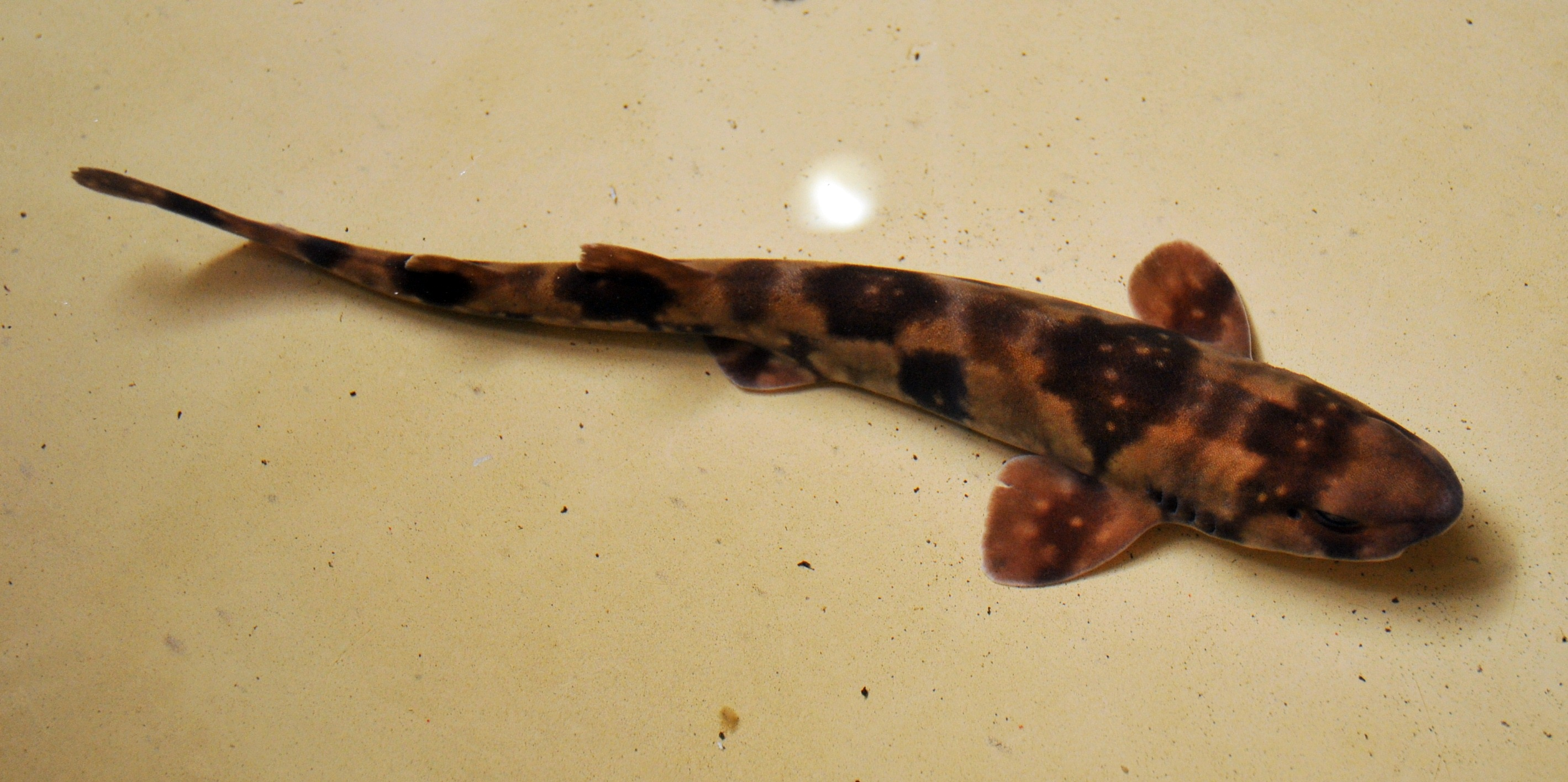 Cloudy catshark (Scyliorhinus torazame) in an aquarium at Kanagawa, Japan.